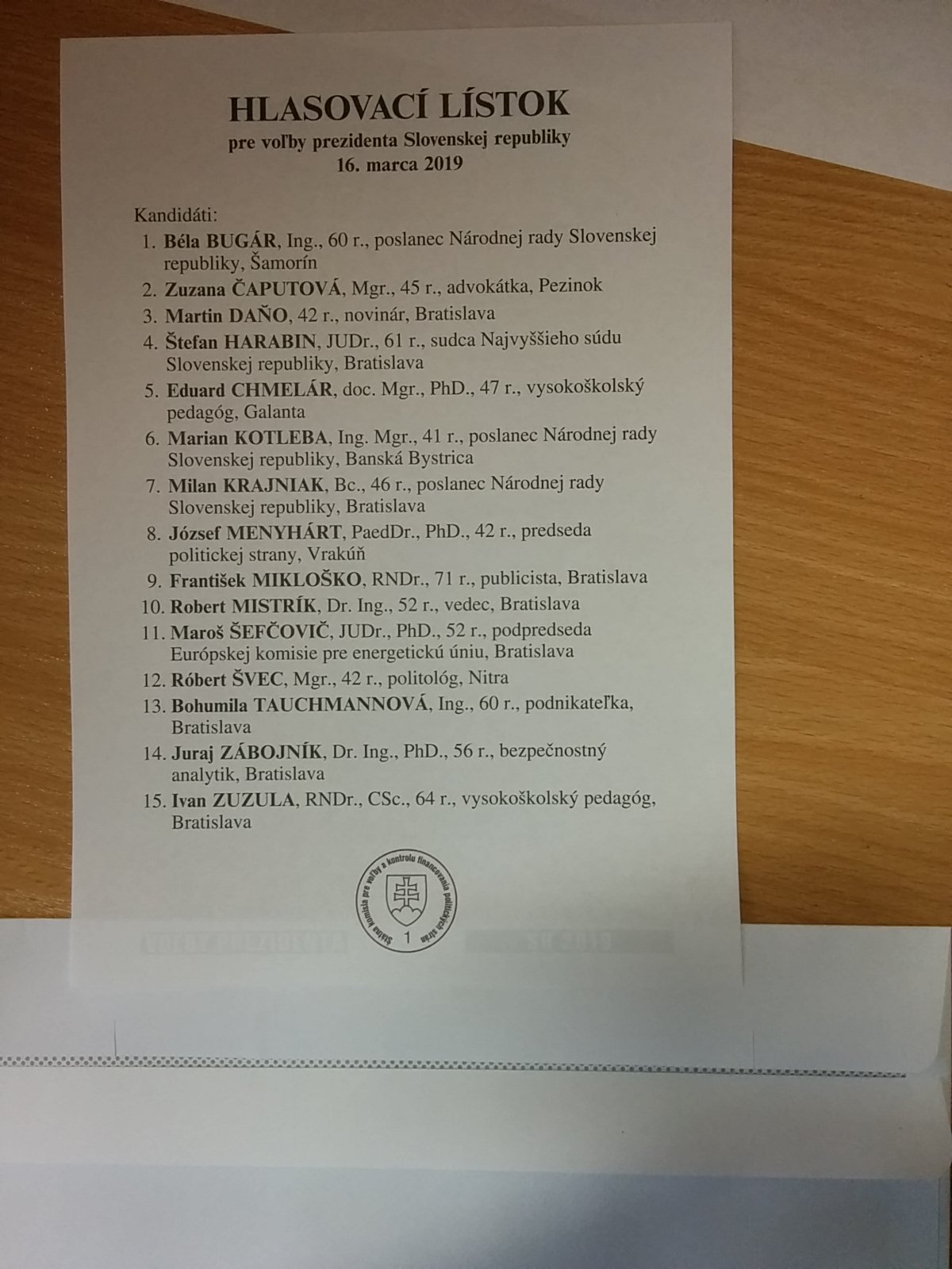 Ballot for the 2019 presidential elections in Slovakia.